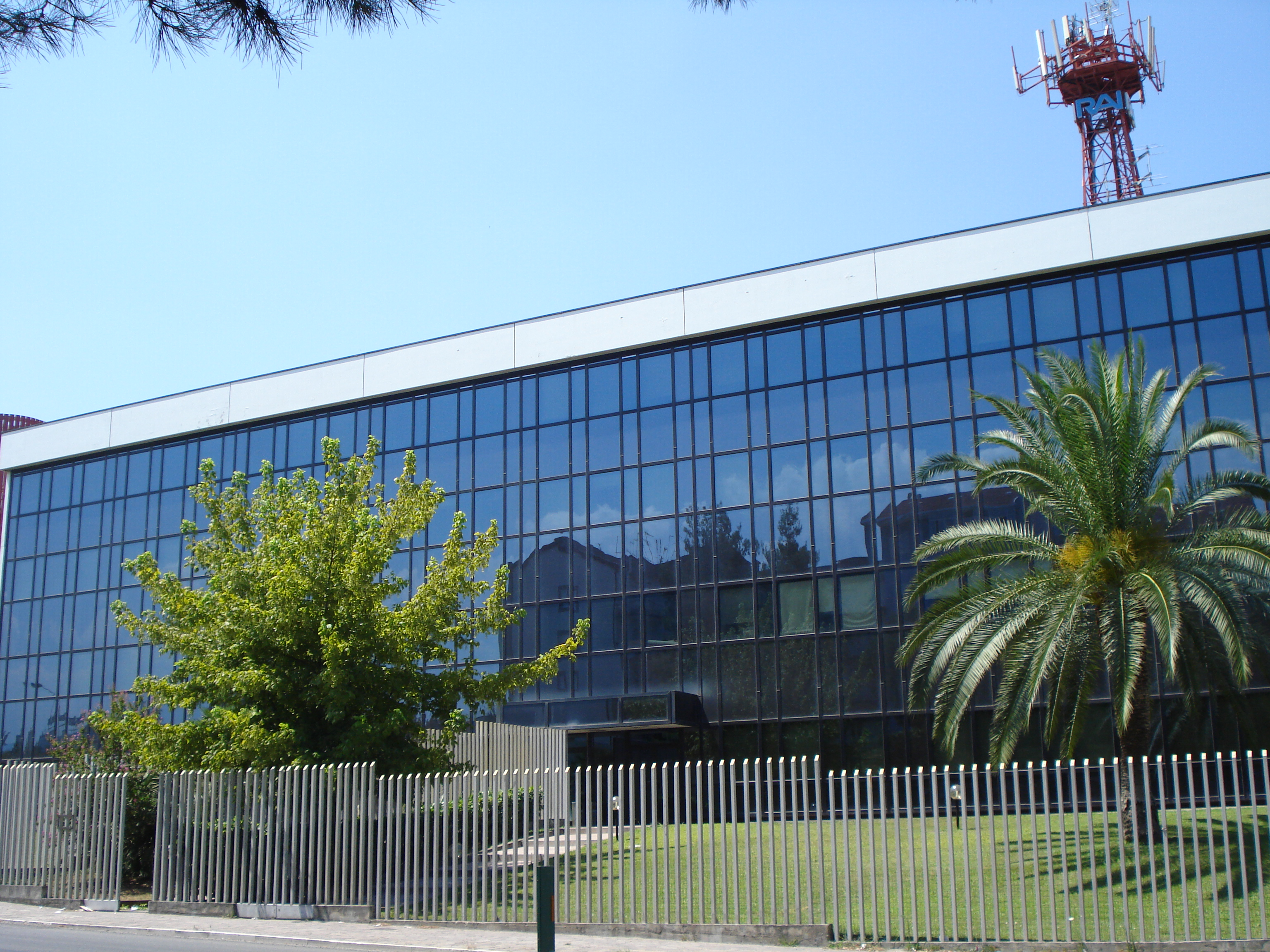 Regional seat of RAI in Cosenza